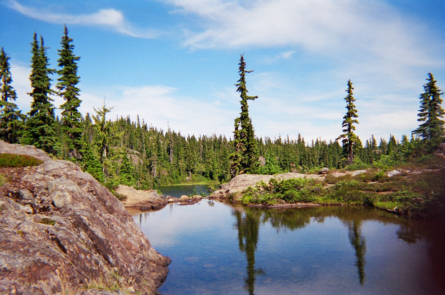 Forbidden Plateau, Strathcona Provincial Park, British Columbia, Canada